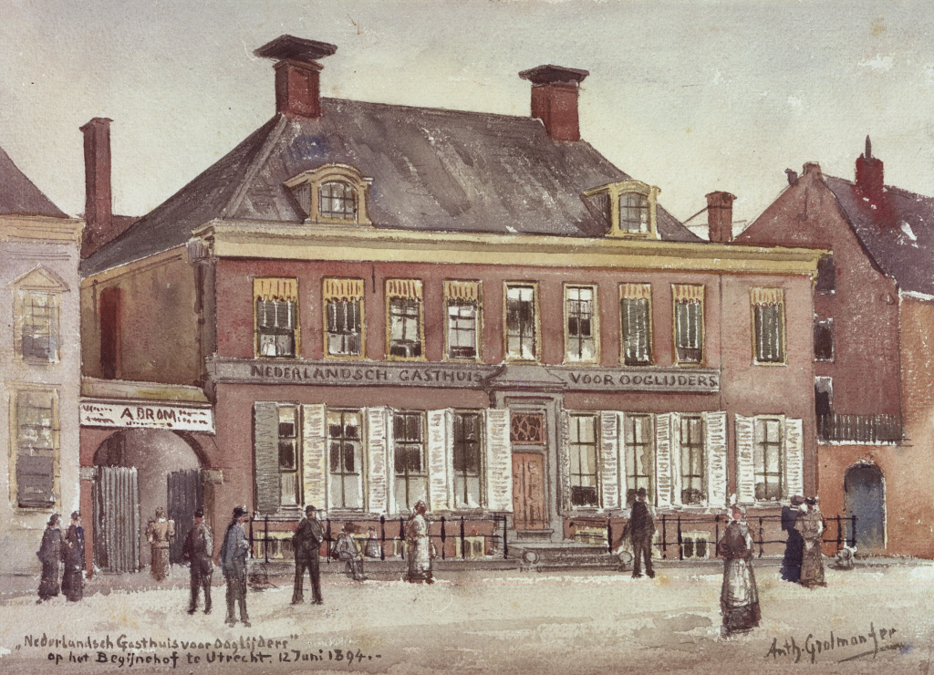 Netherlands Hospital for Eye Patients, Utrecht 1858-1894